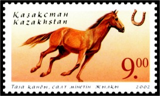 Stamp of Kazakhstan